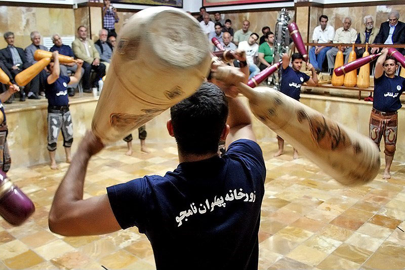 Pahlevan Namjoo Zurkhaneh in Azadi Street, Tehran.